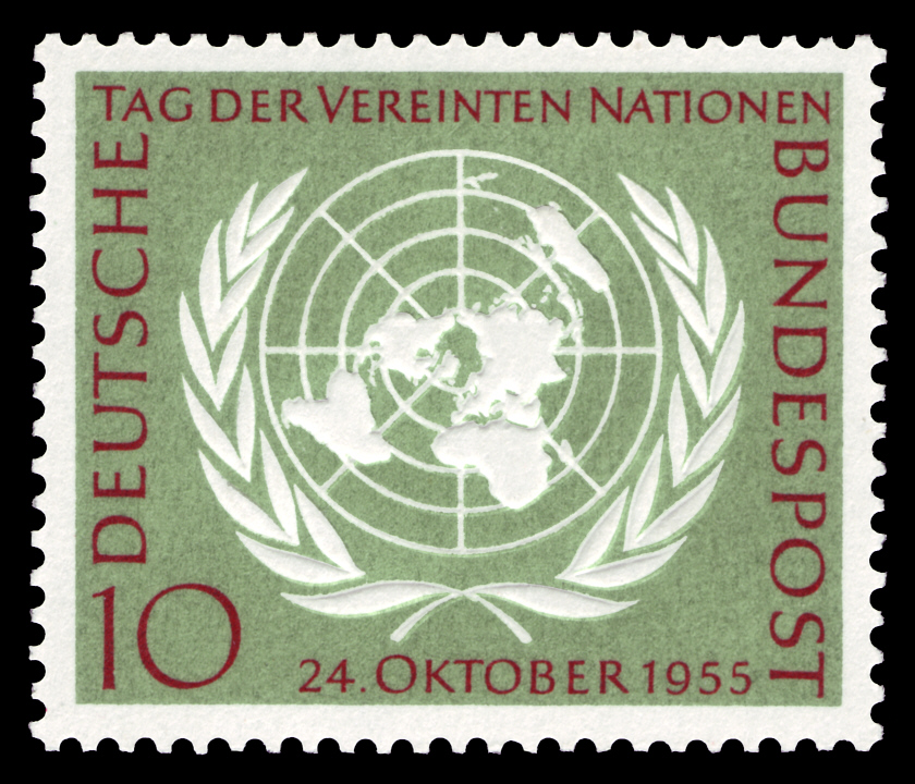 10 jears ofthe United Nations Graphics by Walter Ausgabepreis: 10 Pfennig First Day of Issue / Erstausgabetag: 24. Oktober 1955 Michel-Katalog-Nr: 221